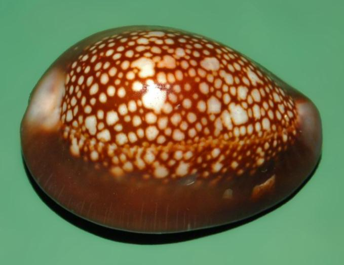 Monetaria caputserpentis (synony m : Erosaria caputserpentis